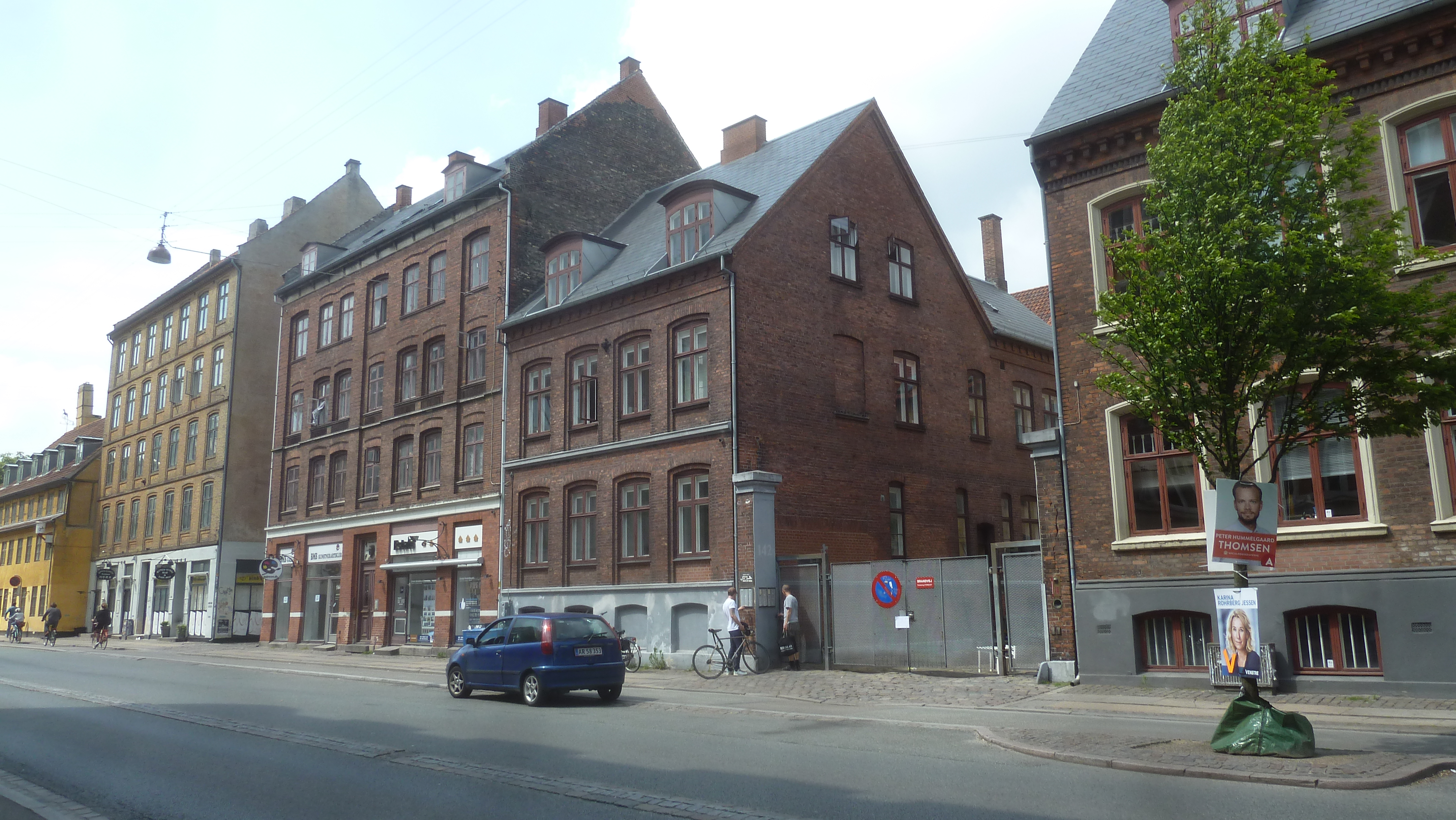 Tvedes Bryggeri on Vesterbrogade in Copenhagen, Denmark